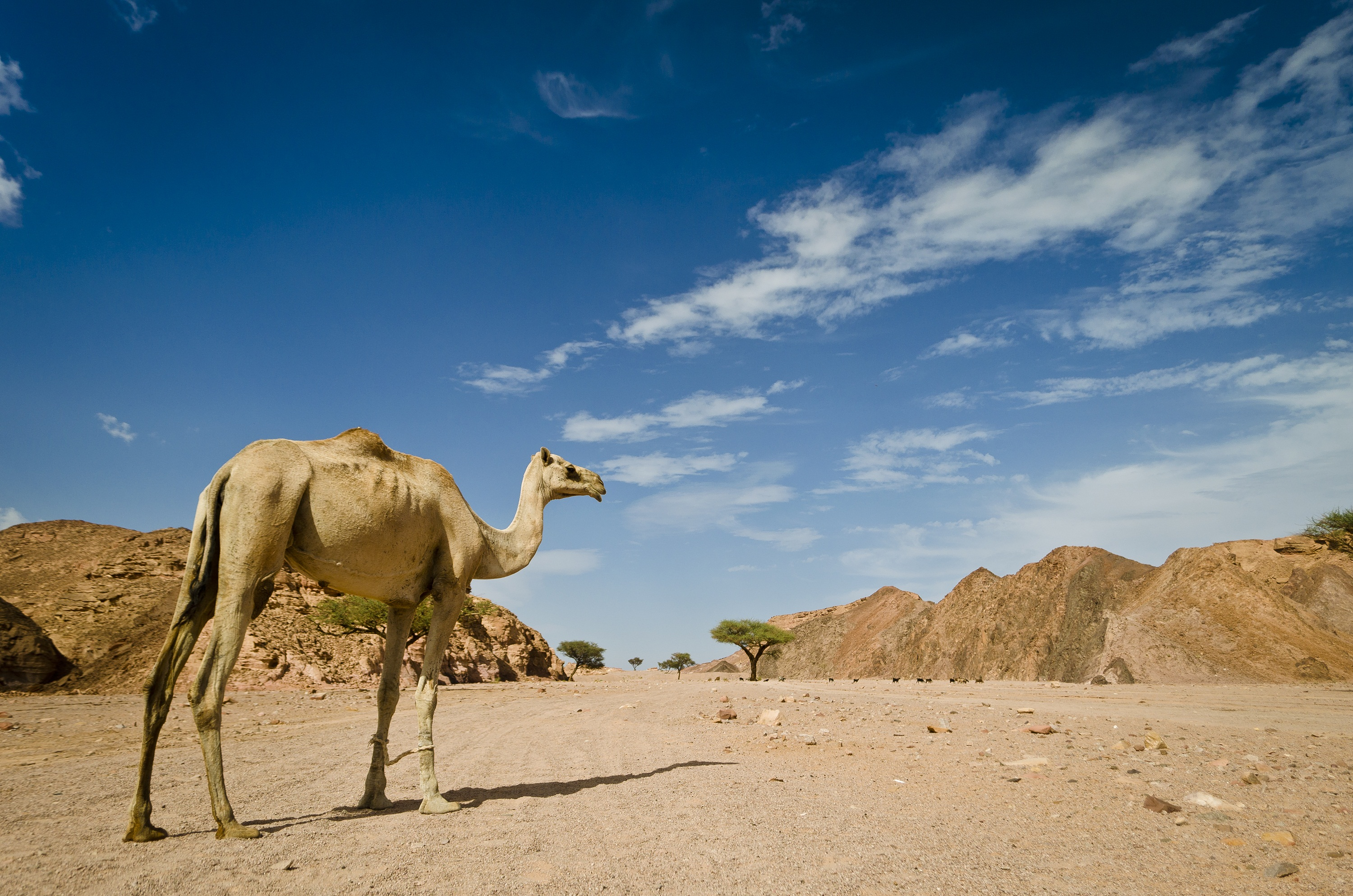 A camel is an even-toed ungulate within the genus Camelus, bearing distinctive fatty deposits known as "humps" on its back